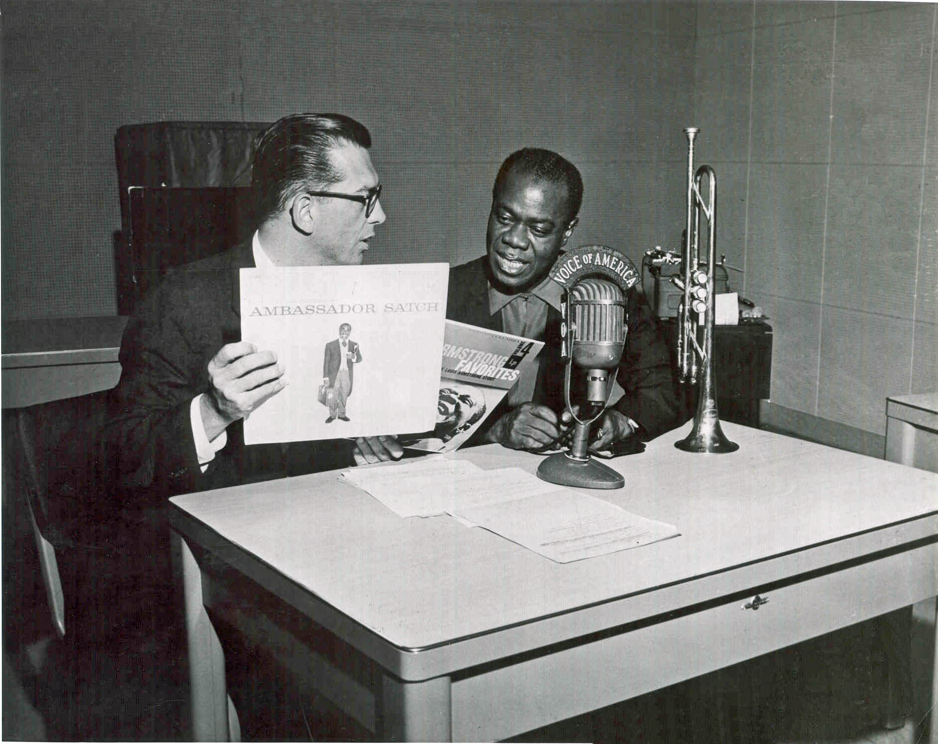 Louis Armstrong (Satchmo) in Willis Conover's studio